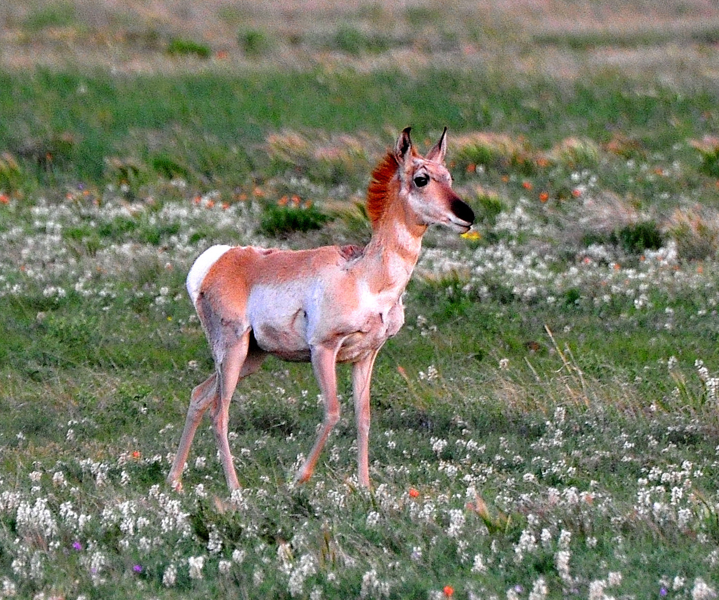 Pronghorn (Antilocapra americana) fawn (i.e., juvenile) Locality: Clayton, NM